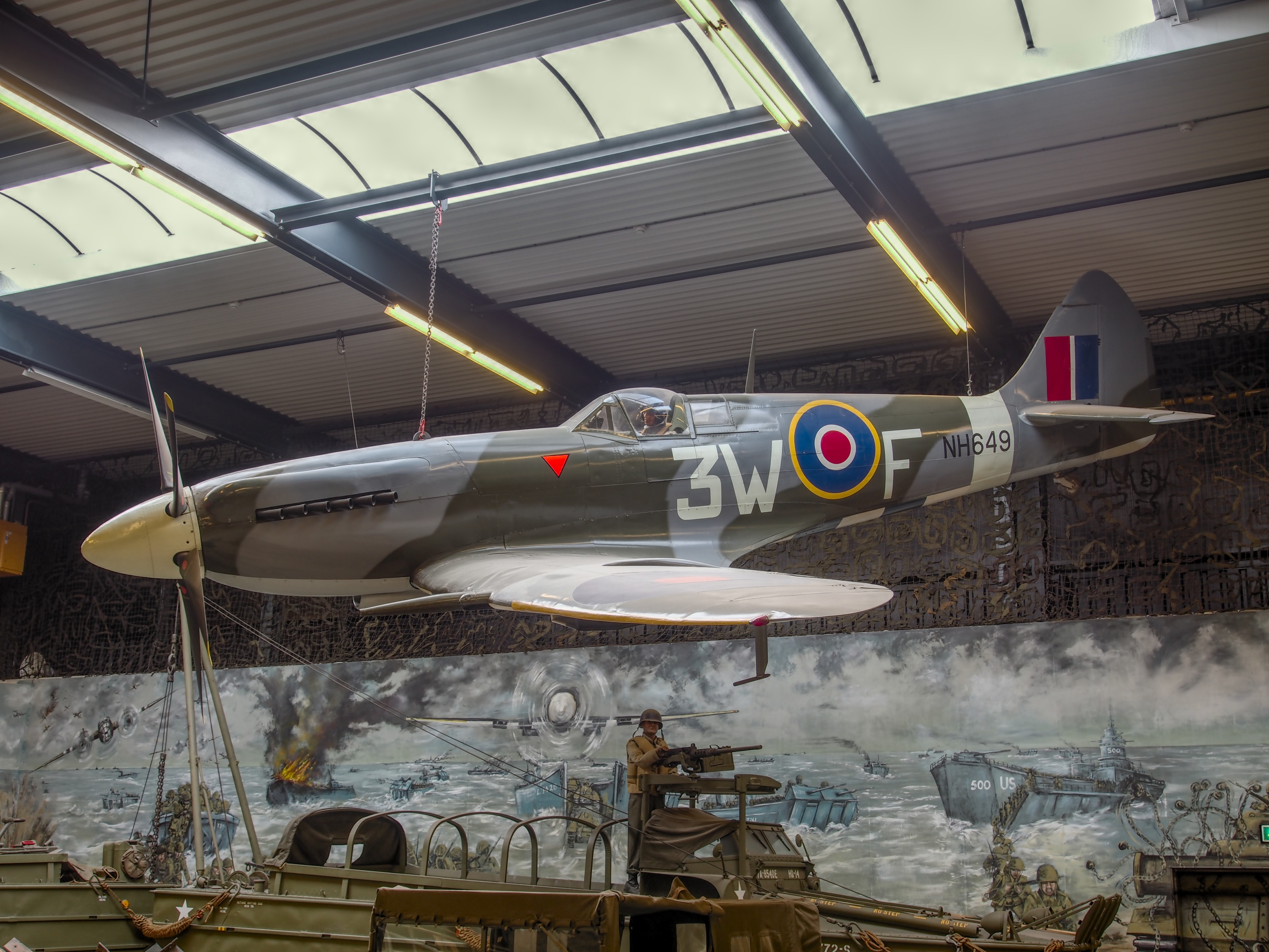 Spitfire (NH649) at Overloon War Museum foto 2.